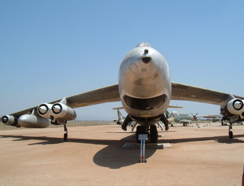 The nose of a B-47 Stratojet at March Field Air Museum, July, 2005.